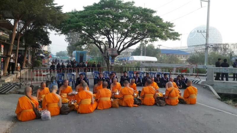 Monks at Wat Phra Dhammakaya eat lunch while soldiers surround their temple